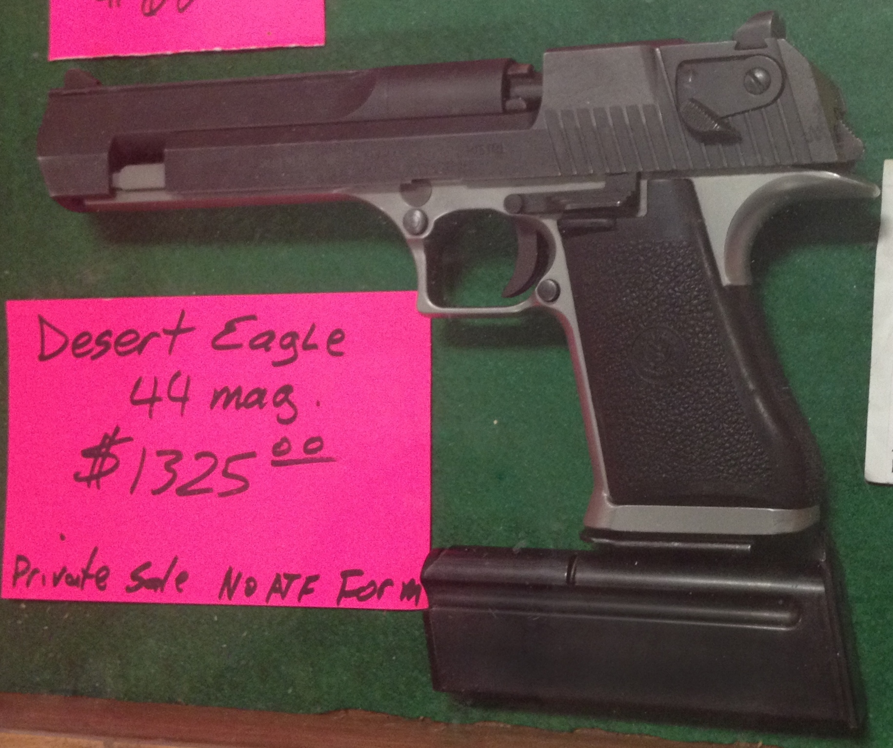 Desert Eagle 44 mag. private sale - final revision